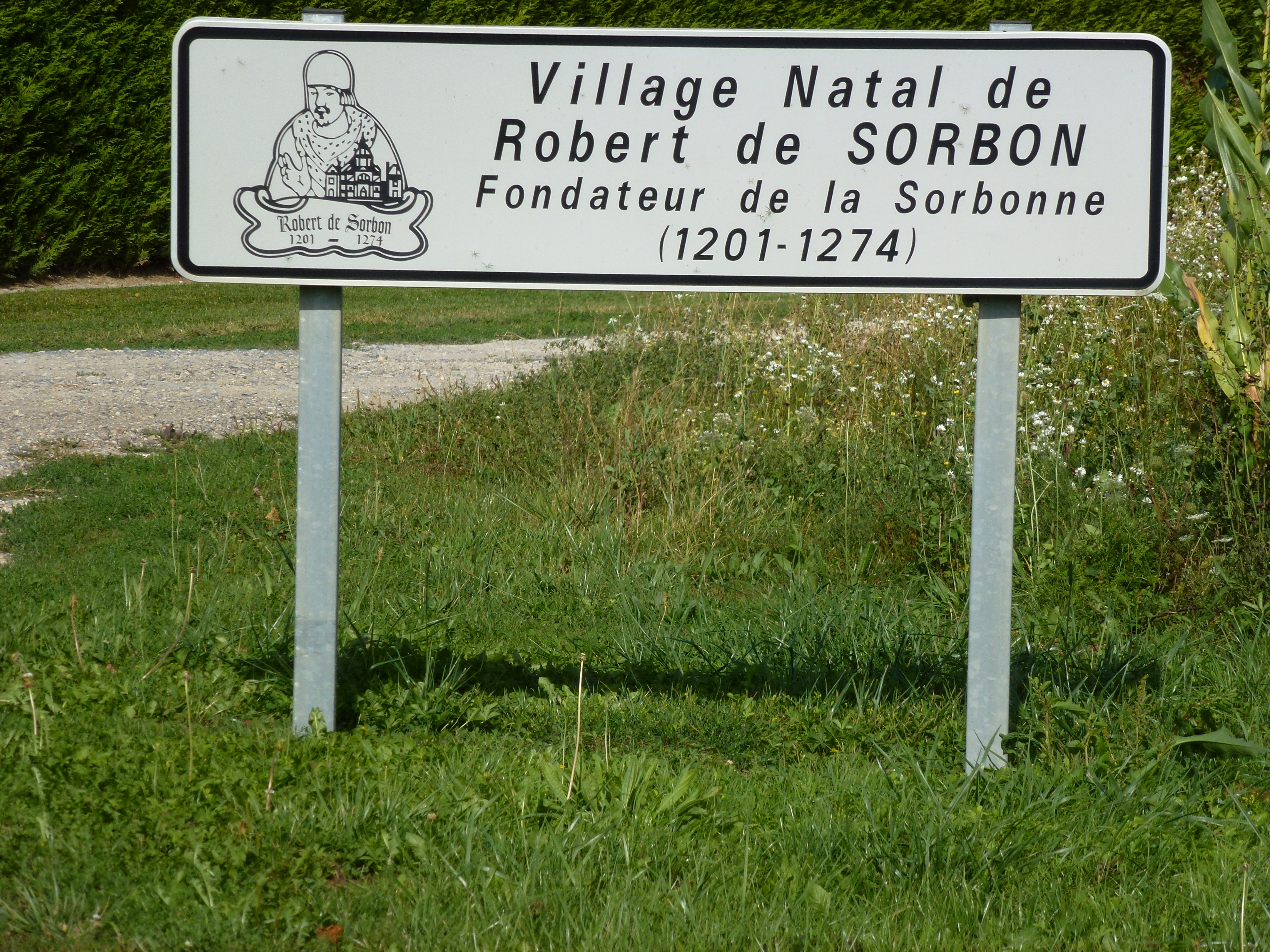 Sorbon (Ardennes) village natal de Robert de Sorbon